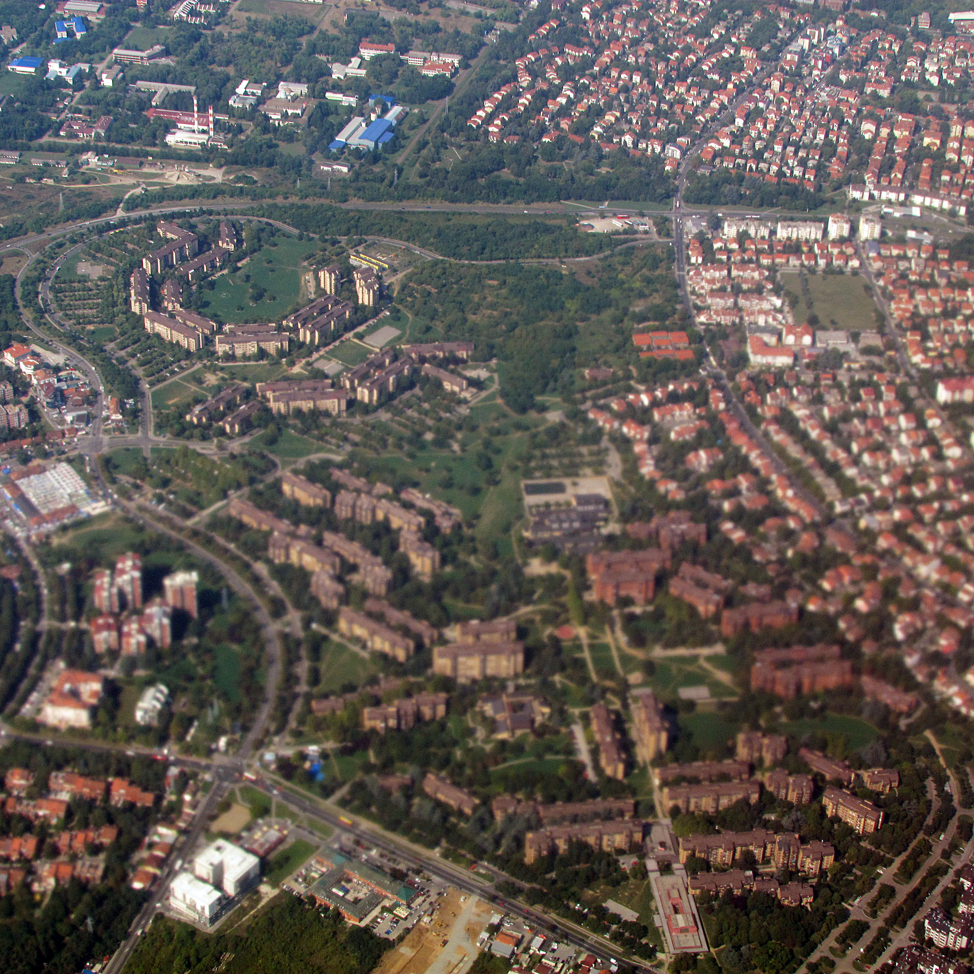 Cerak vinogradi (Belgrade suburb) from air